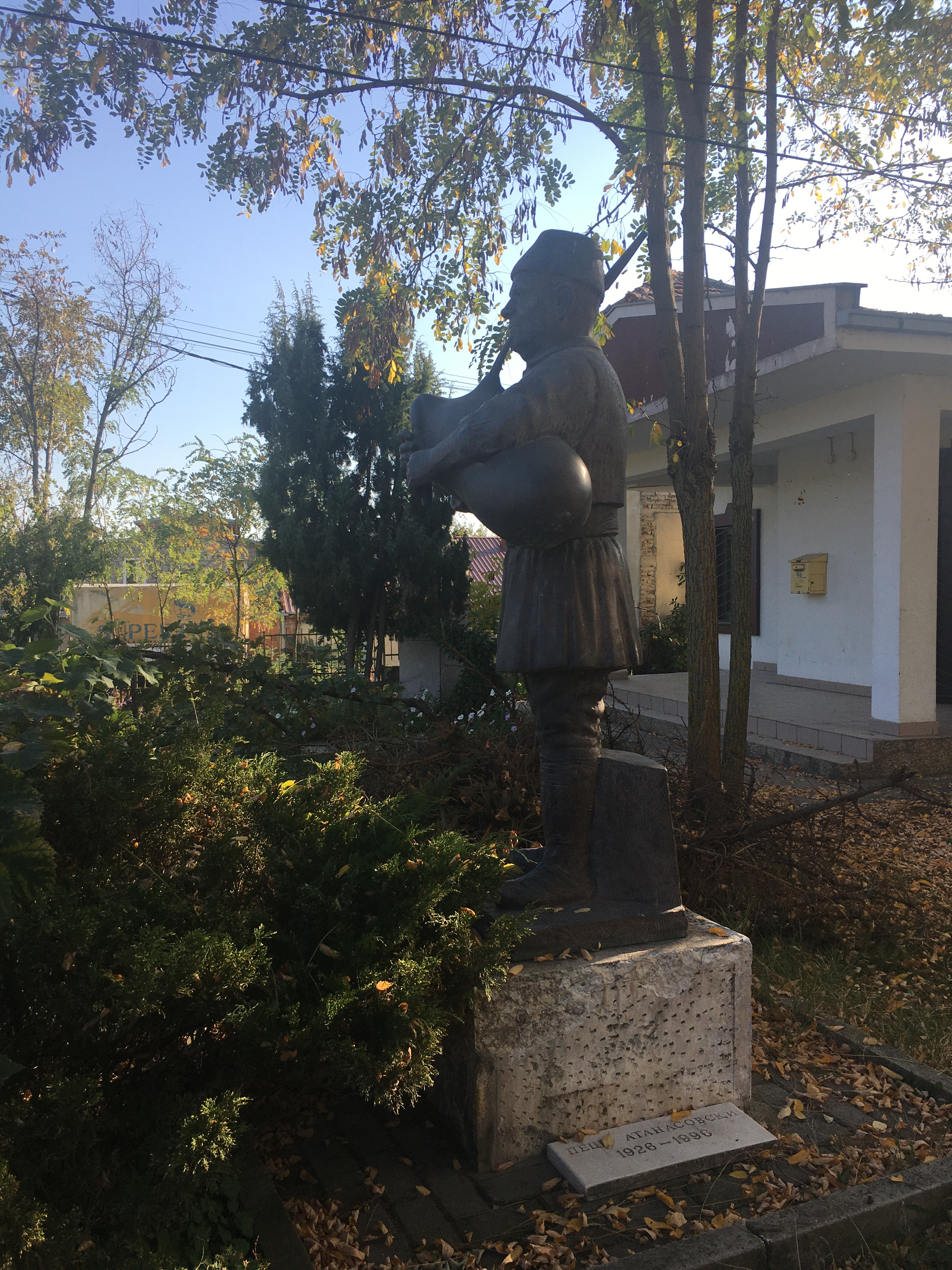 A monument of Pece Atanasoski (1925 — 1996) in the village of Dolneni